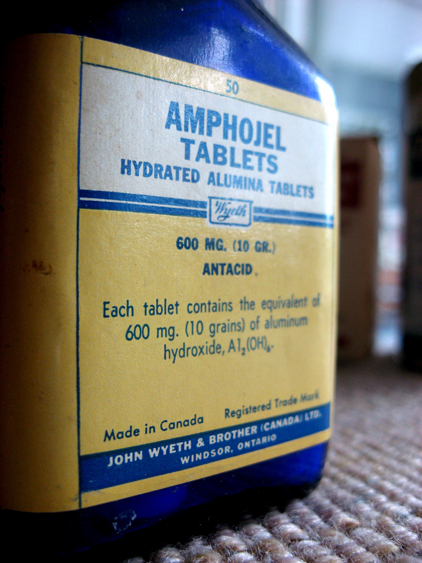 A picture of John Wyeth & Brother Amphojel Tablets